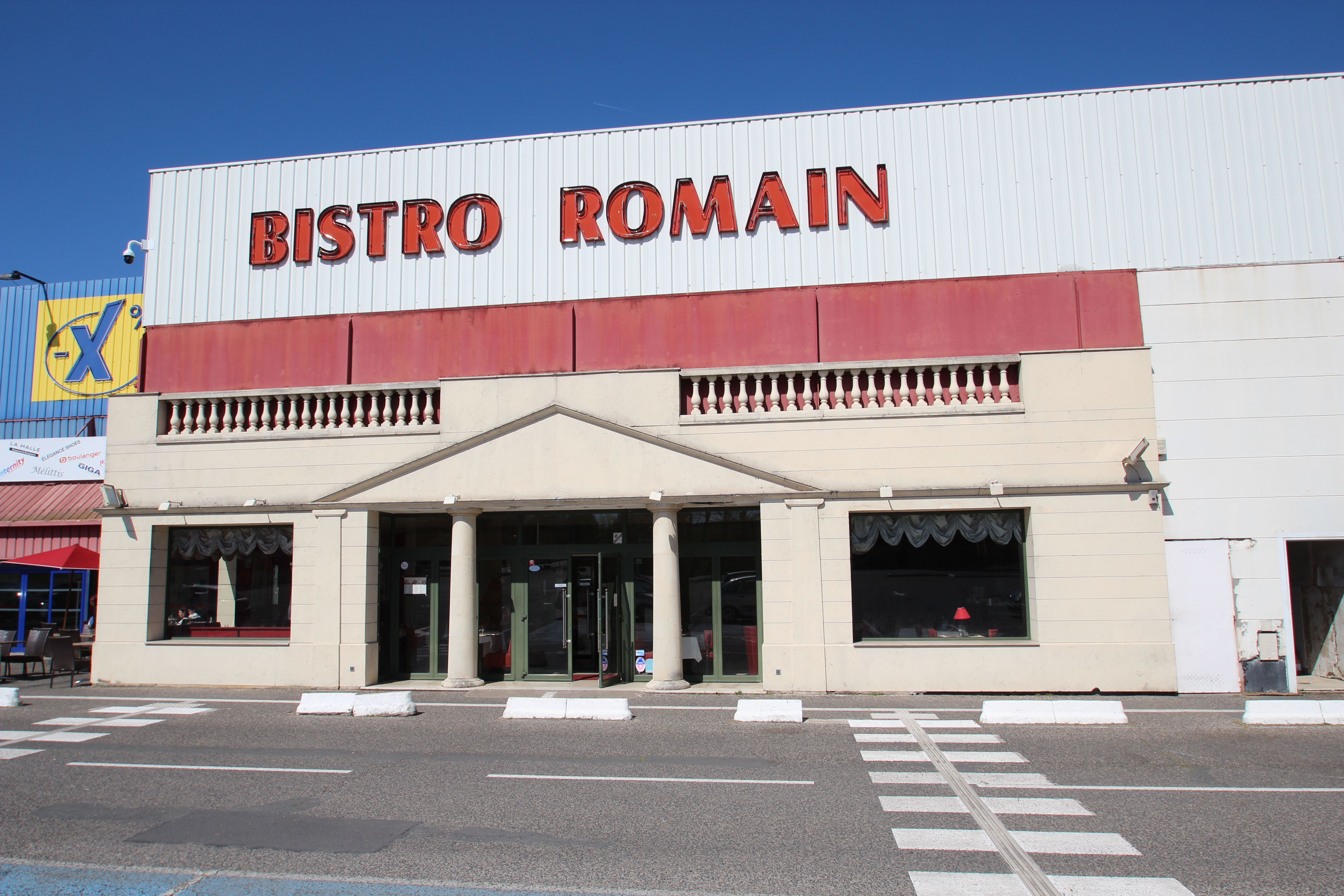 moins X pour cent shopping mall in Massy, Essonne, France. Object location48° 43′ 24.96″ N, 2° 16′ 29.28″ E